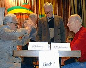 Vladimir Bagirov and Janis Klovans, Senior Chess World Championship 1999 at Gladenbach in Germany with Boris Arkhangelsky (standing).